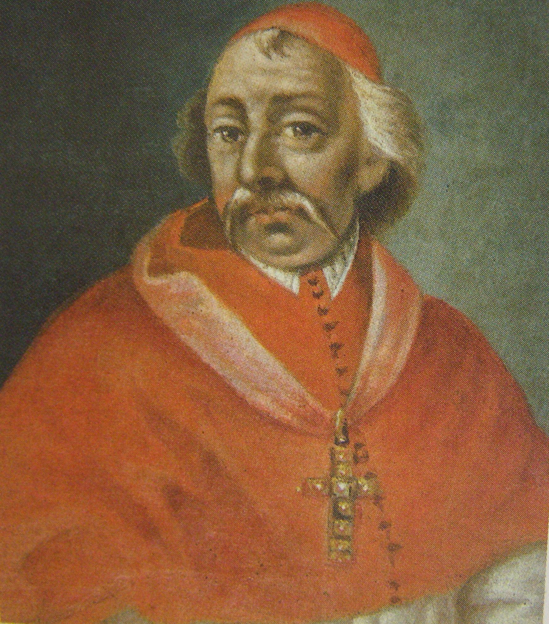 Cardinal George Martinuzzi (György Fráter) (1482–1551), Archbishop of Esztergom, chancellor of Transylvania. Portrait on oil painting.